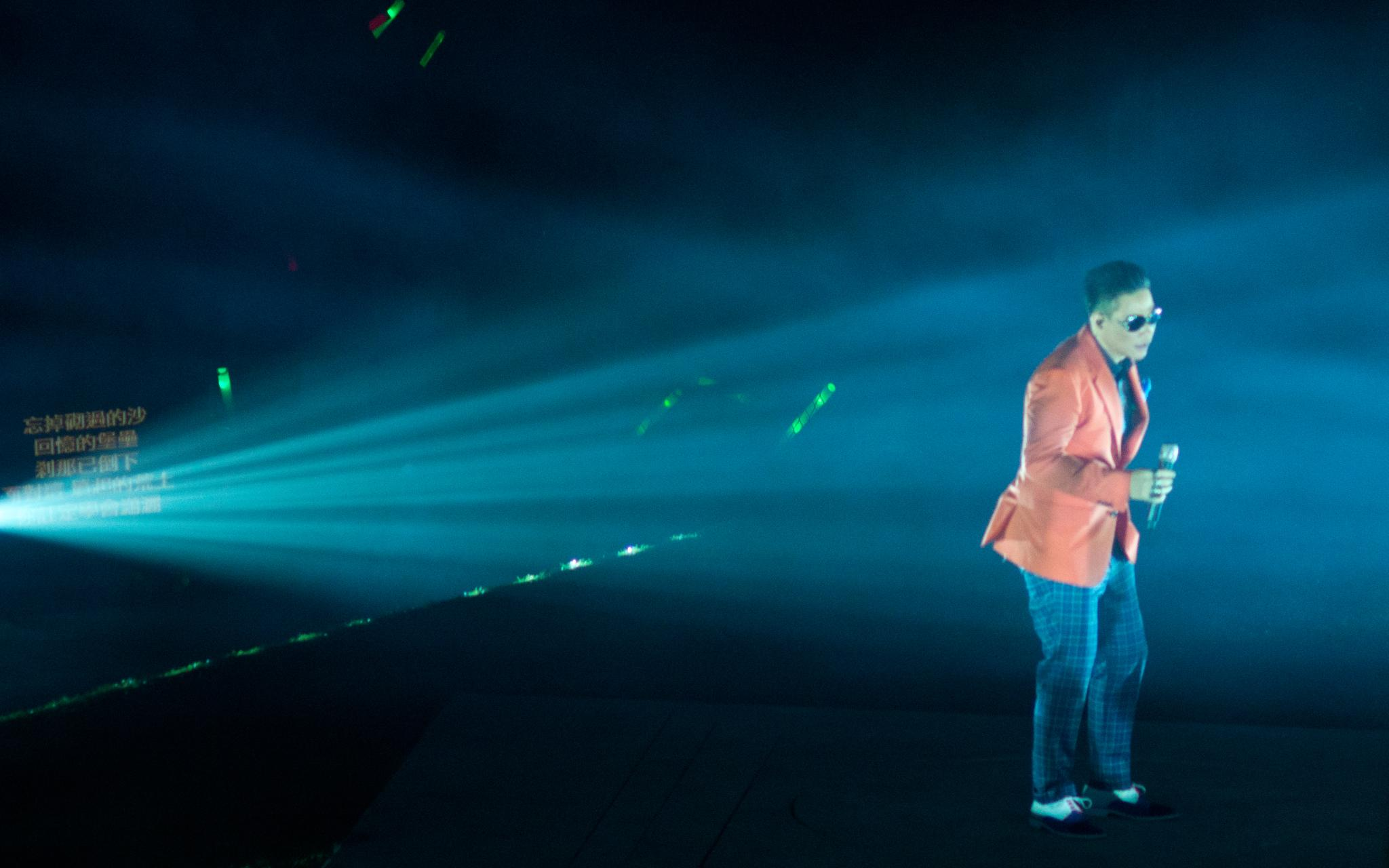 2014.07.19 尾場 Olympus E-M1 Asahi Opt. Super Takumar 135/3.5 (In E-M1 equally 270mm) Hong Kong Coliseum Row:20